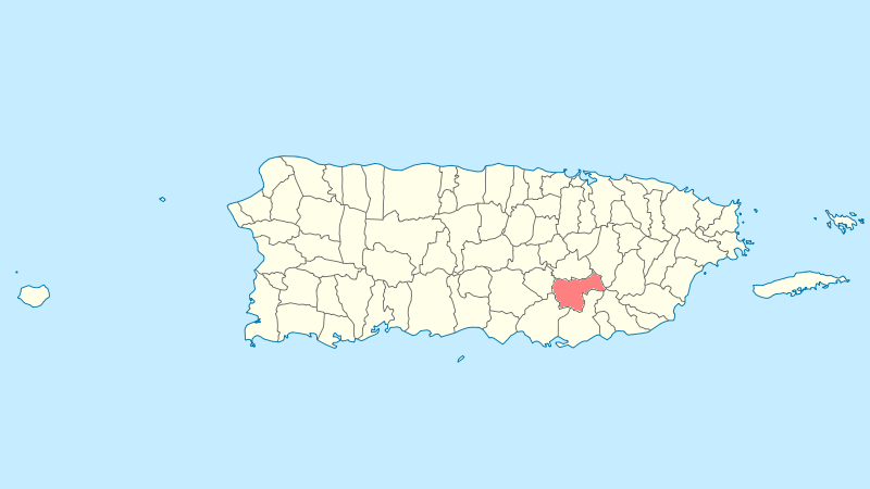 Municipal locator of Puerto Rico